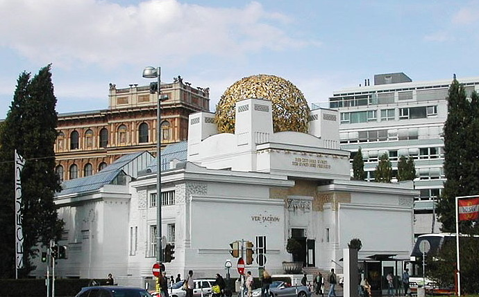 Austria, Vienna, Secession hall